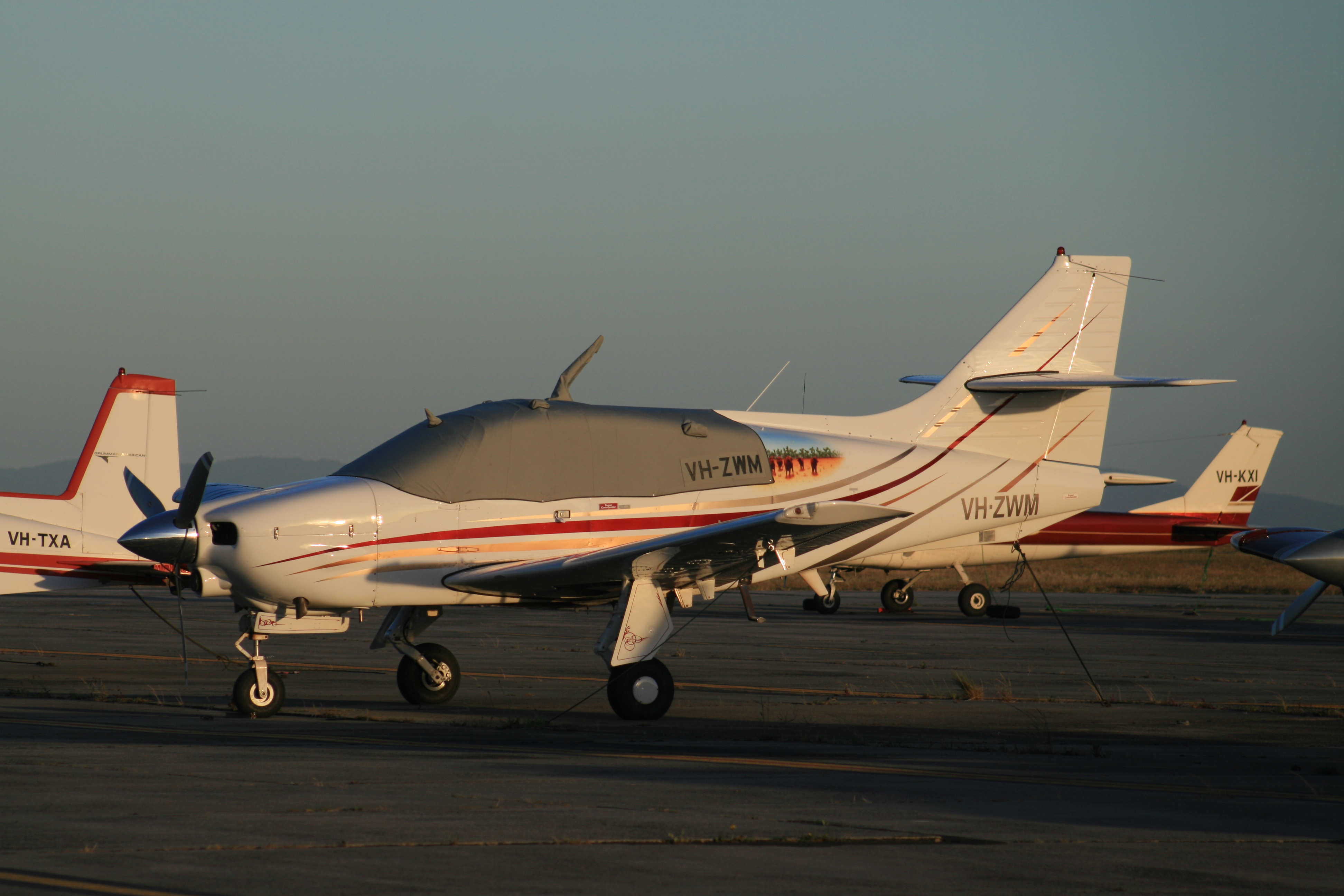 A early-build Rockwell 114, VH-ZWM, at Essendon Airport.